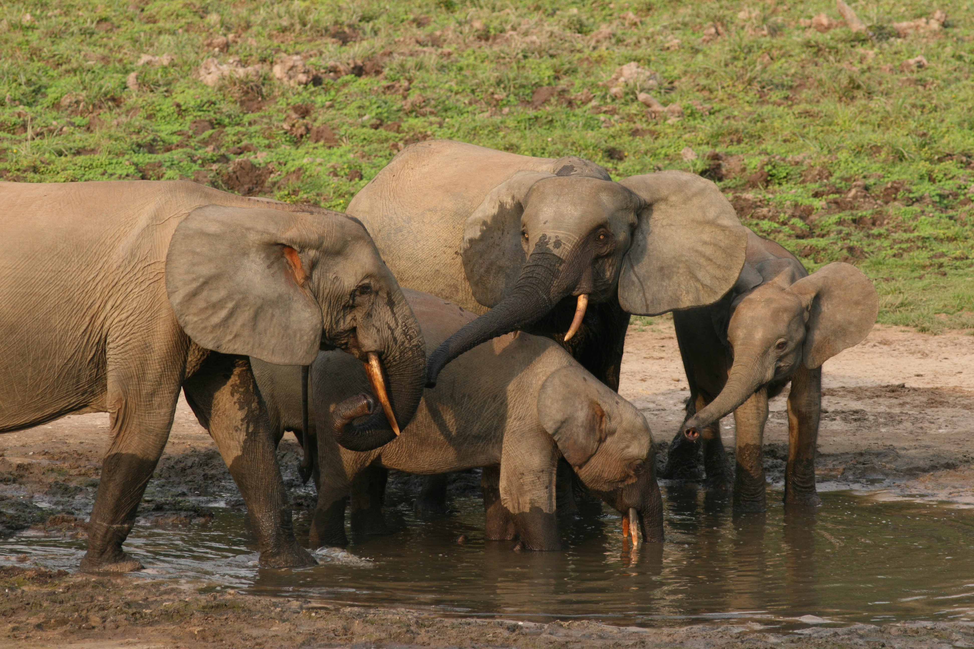 Forest elephants have thinner, straighter, and pinker tusks than savannah elephants. Unfortunately, forest elephants are in decline and some consumers prefer forest elephant ivory. Credit: Richard Ruggiero/USFWS